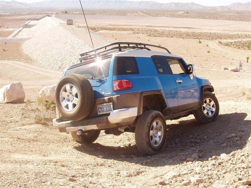 blue Toyota FJ Cruiser